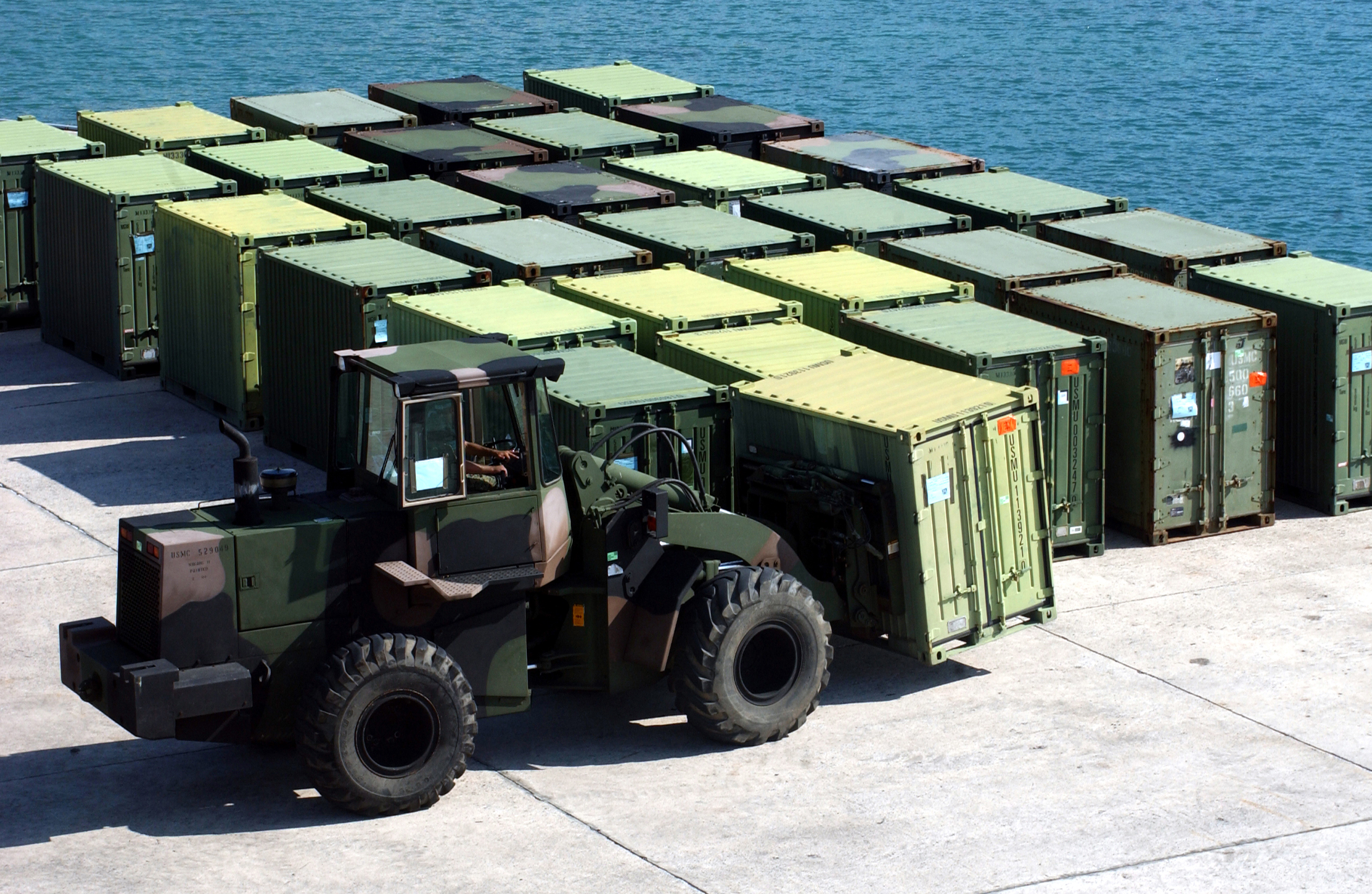 Kin Red Port, Okinawa, Japan (Oct. 10, 2005) - A tractor moves a quadcon container at Kin Red Port in Okinawa. Quadcons are modular, lightweight and durable containers to be used for storage and transportation of equipment and supplies during deployment and in garrison. The gear belongs to 12th Marine Regiment, which will depart for Combined Arms Training Center Camp, Fuji, Japan, Oct. 11 on the high-speed vessel Westpac Express to conduct an exercise called Fuji Combined Arms Operation. U.S. Marine Corps photo by Sgt. C. Nuntavong (RELEASED)